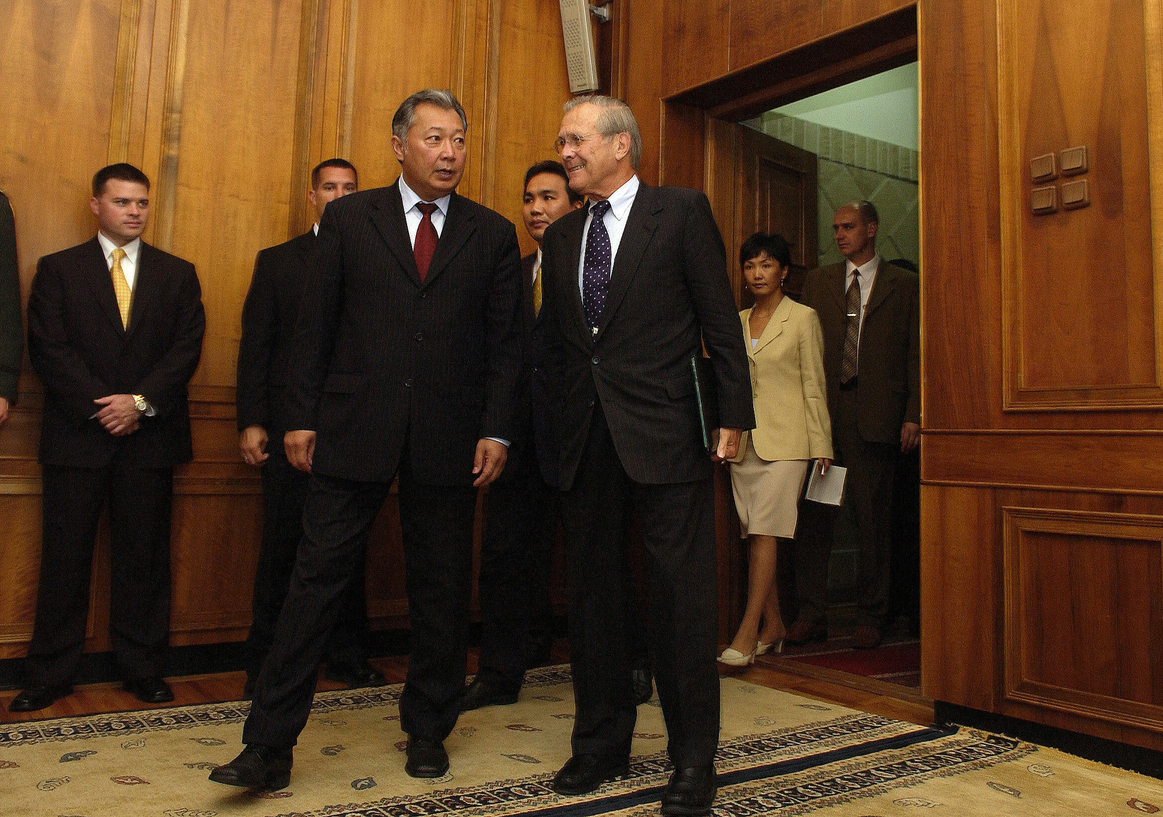 Secretary of Defense Donald Rumsfeld (right) and then President-elect Kurmanbek Bakiyev of Kyrgyzstan talk informally as they move to meeting to discuss bilateral security issues at Government House in Bishkek, Kyrgyzstan on July 26, 2005. Rumsfeld is in Kyrgyzstan to meet with Bakijev and other senior leaders of the central Asian country. DoD photo by Tech. Sgt. Kevin J. Gruenwald, U.S. Air Force. (Released) 050726-F-6911G-001